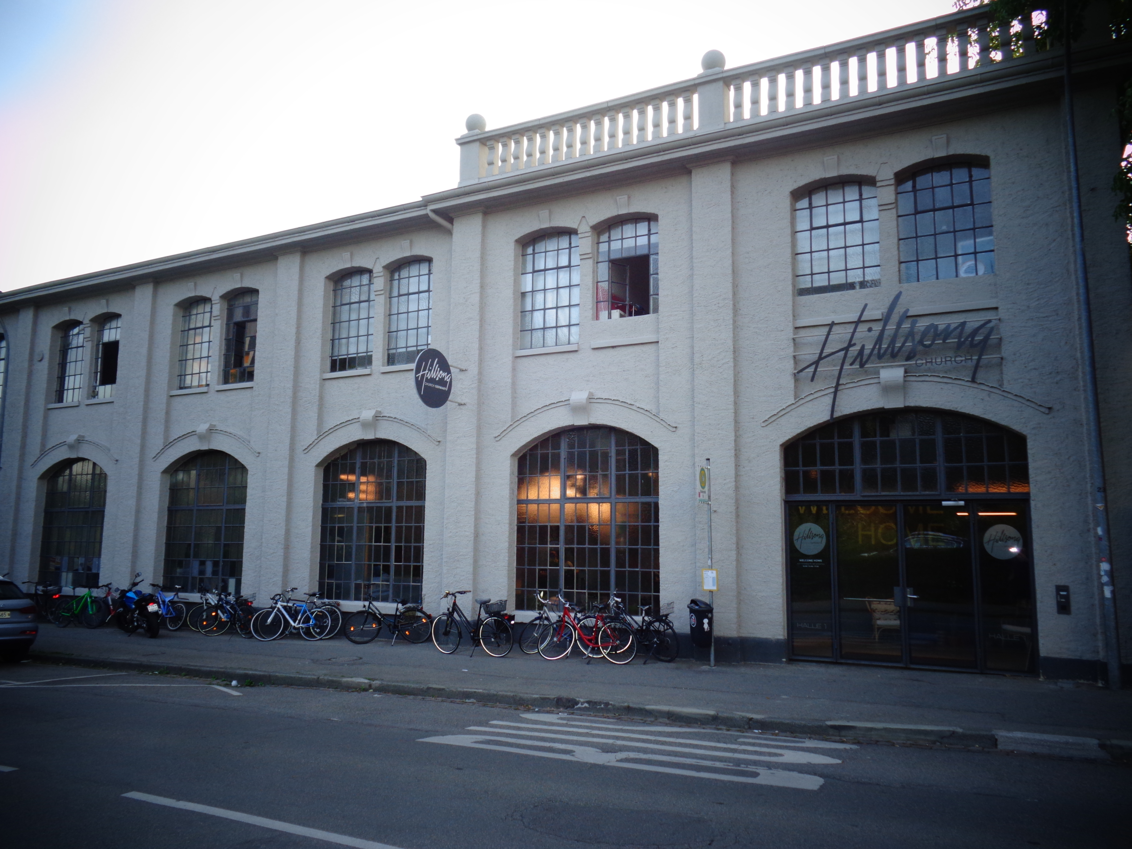 Hillsong Church Konstanz, Germany 2018